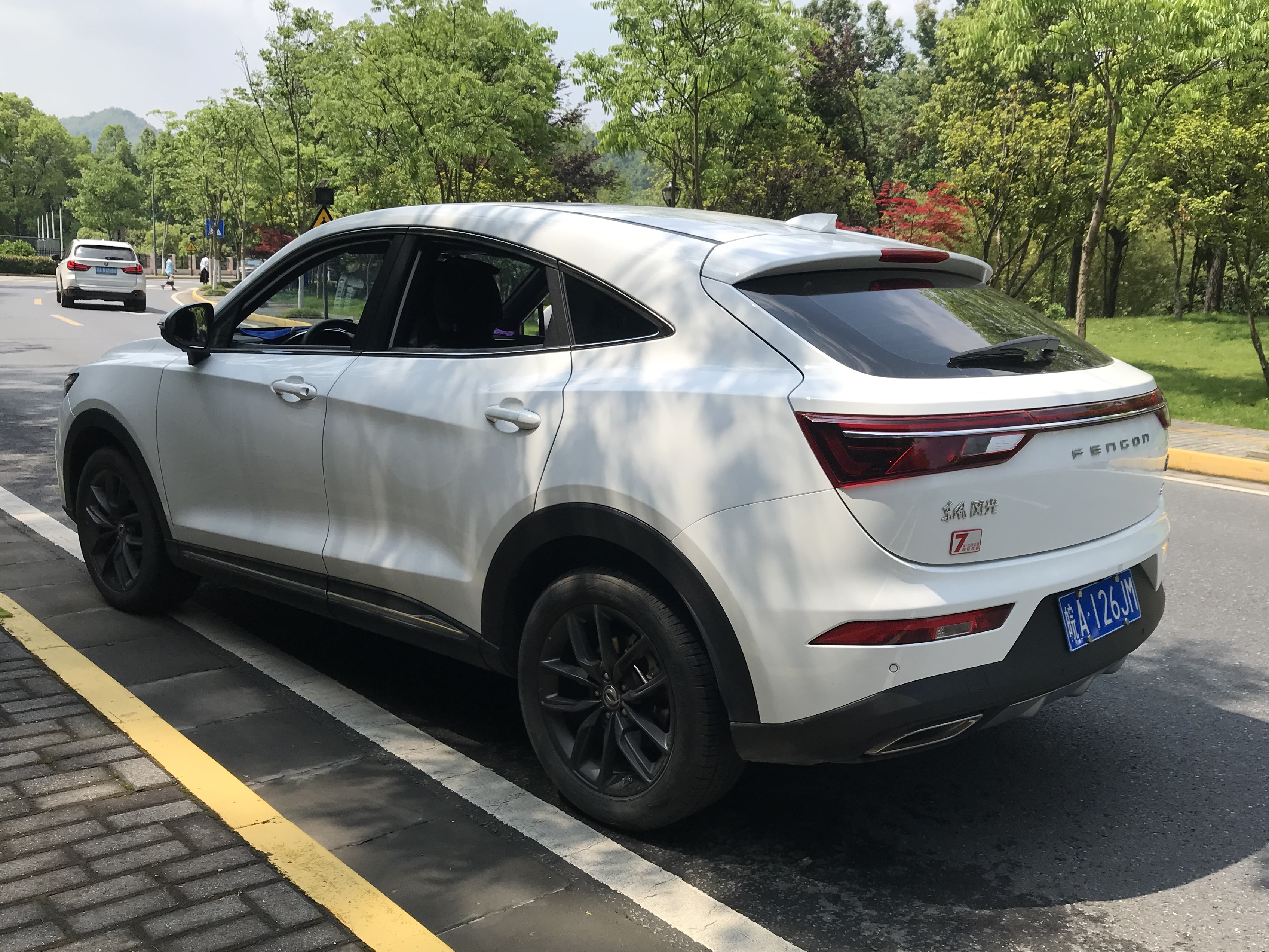 Fengon (Dongfeng Fengguang-DFSK) ix5 rear quarter view